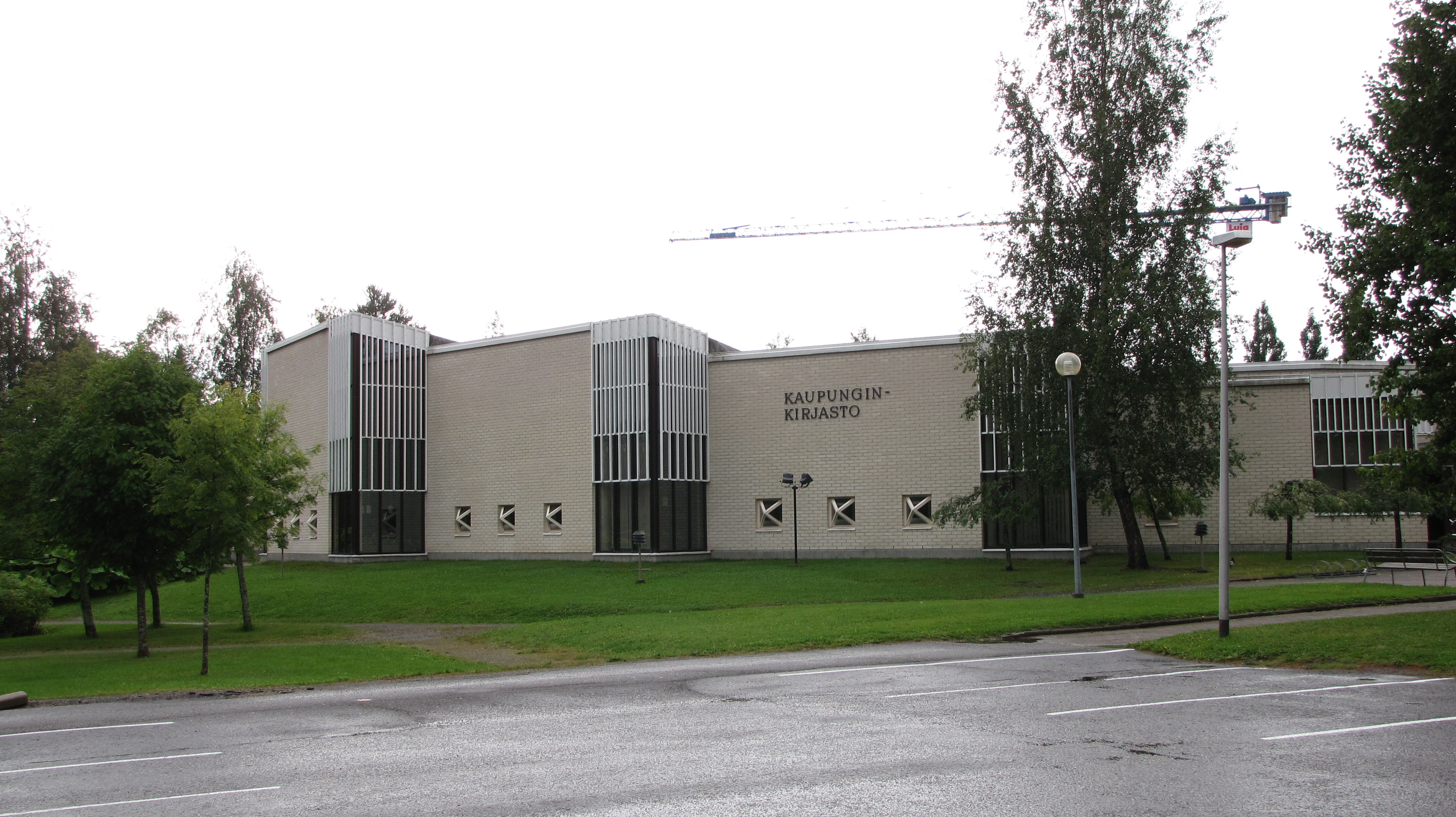 The Kauhajoki Town Library in Finland. The library was completed in 1989.